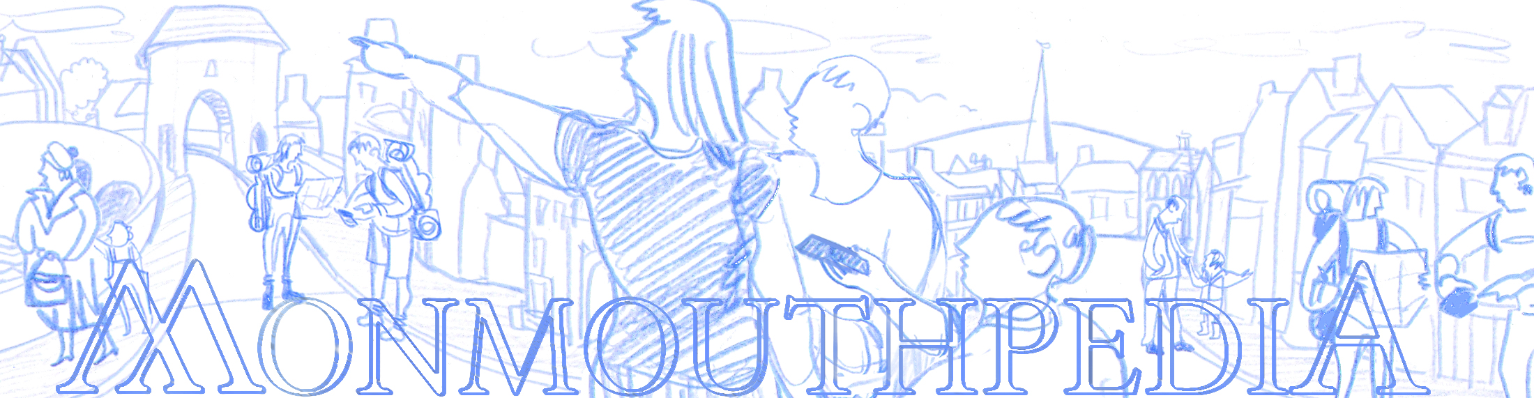 Pencil, hand-drawn street scene for Monmouthpedia